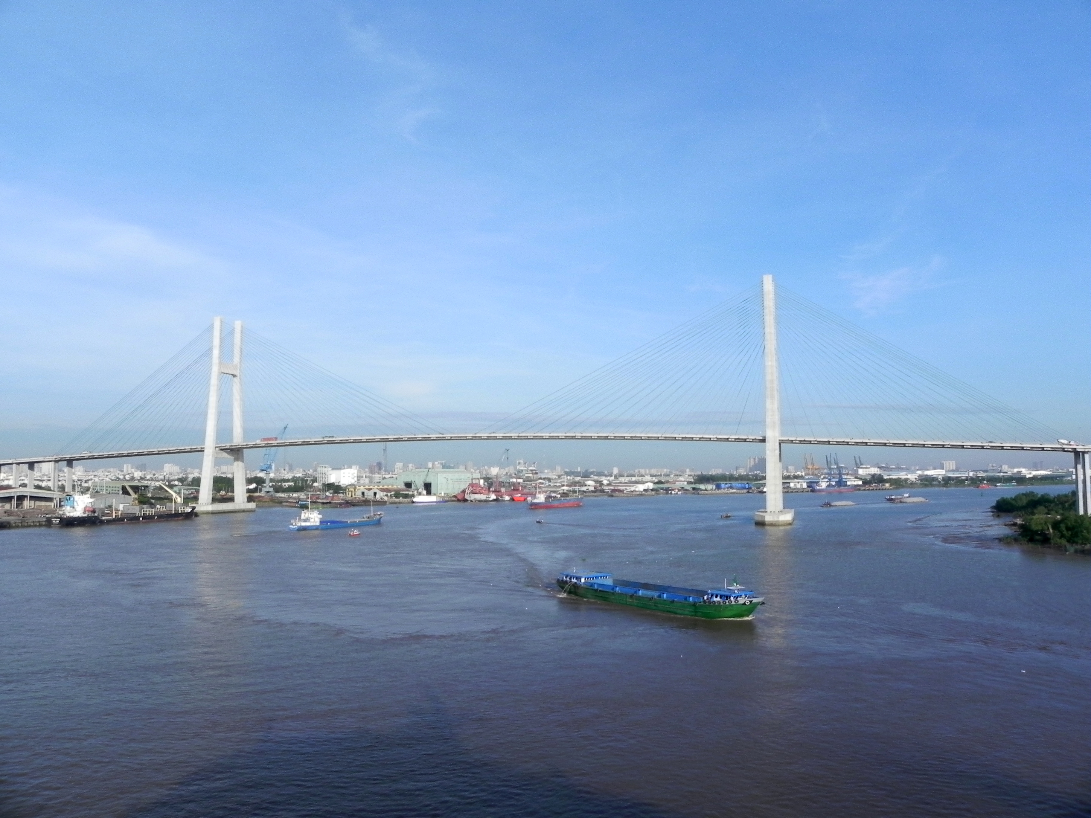 Phu My Bridge